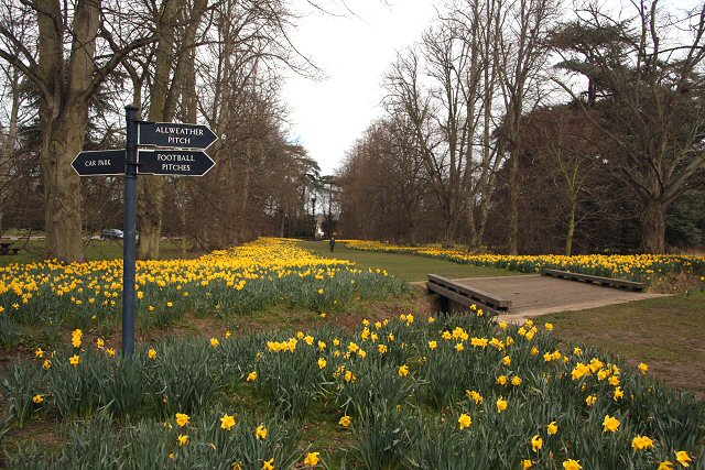 Lime Avenue, Nowton Park. The northern end of the avenue of trees, by the car park and main entrance. 730467